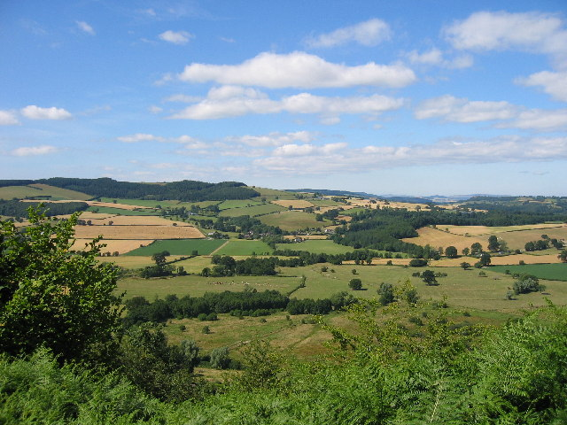 Herefordshire Trail leading to Wapley Hillfort. This is taken looking North from the Herefordshire Trail towards Combe Moor and Byton Moor from the ridge above Brandhill Wood